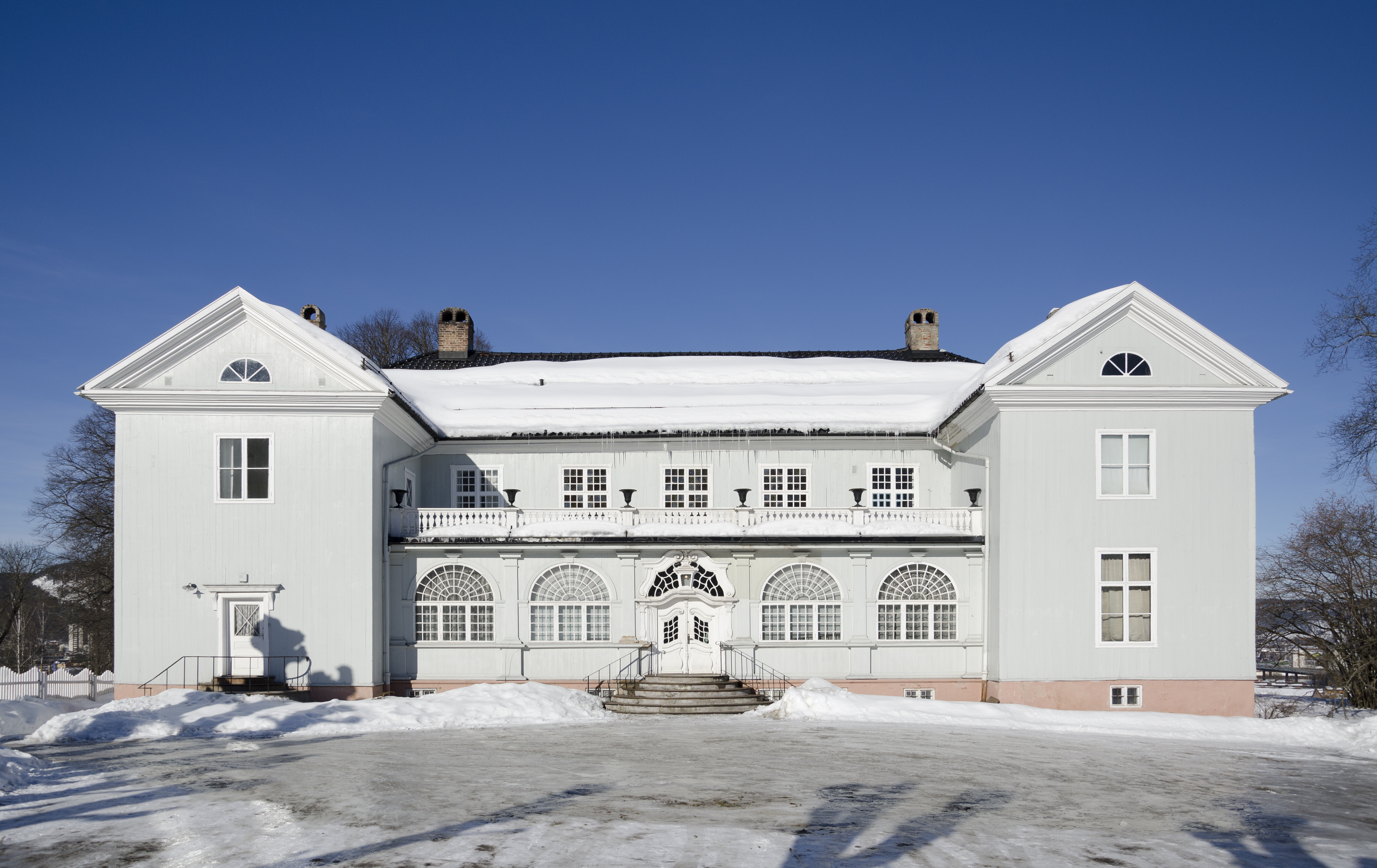 Austad manor front facade.